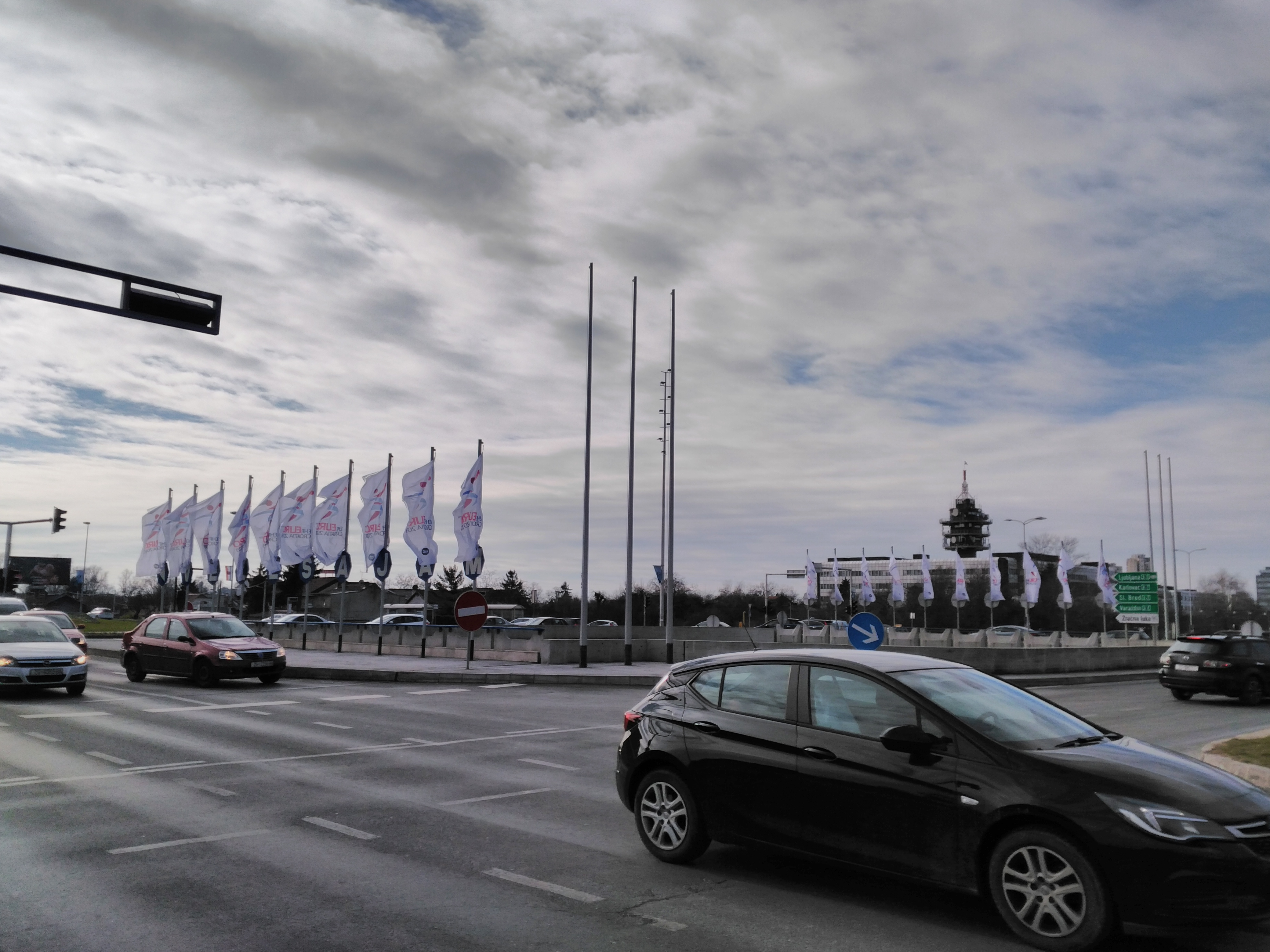 2018 European Men's Handball Championship in Zagreb, Croatia. Flags in the city.